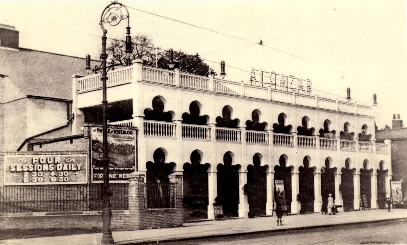 Alcazar Cinematograph Theatre, Enfield